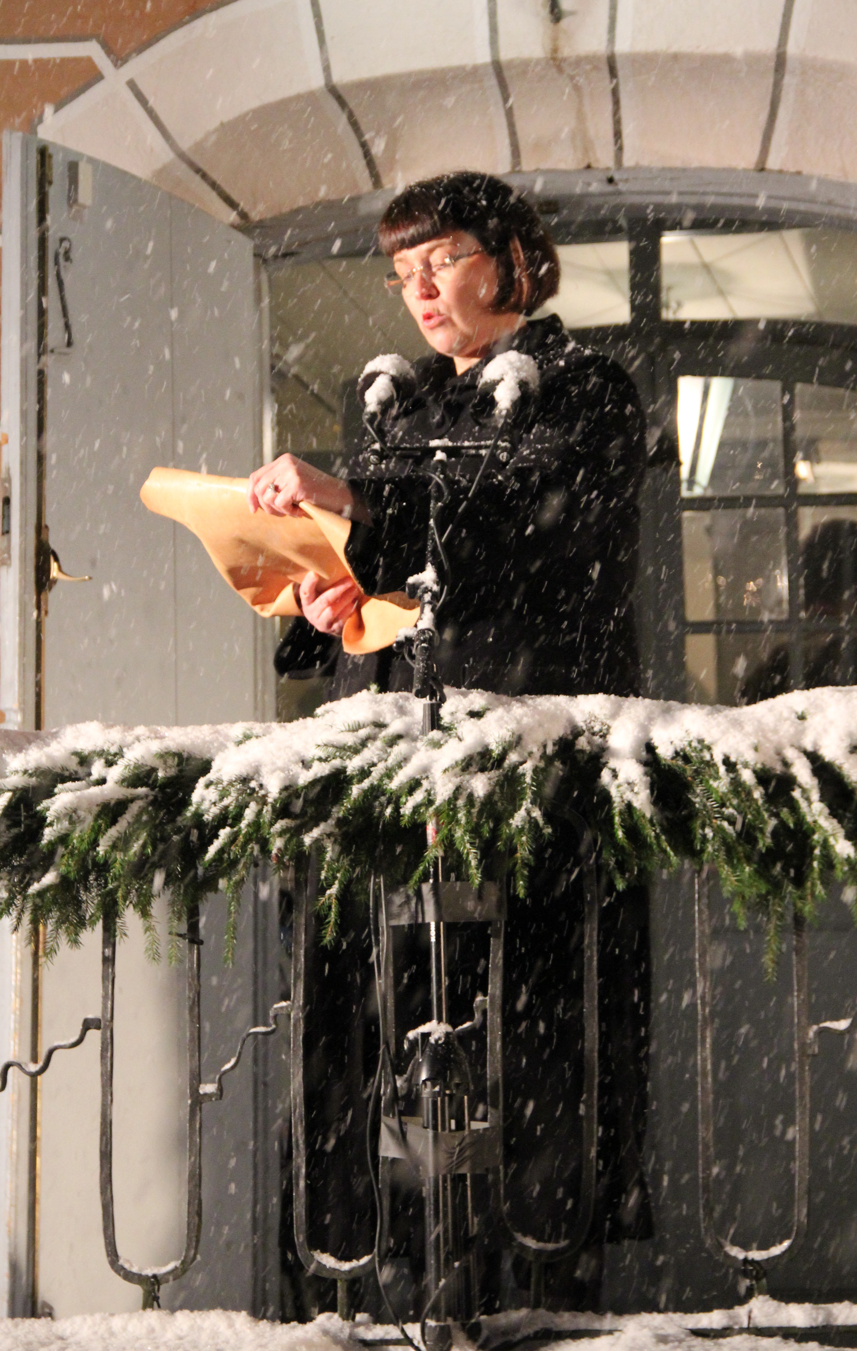 Declaration of Christmas Peace in 2014 in Porvoo, Finland. -The chairwoman of Porvoo City Council, Mrs. Mikaela Nylander reading the declaration.